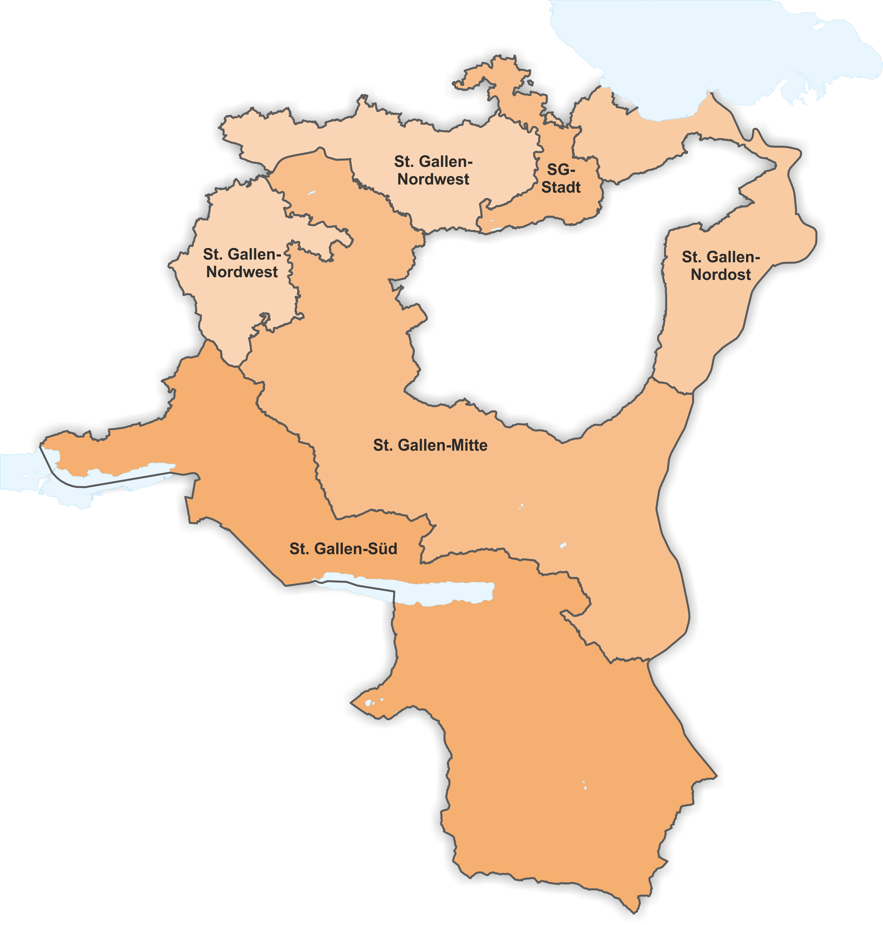 National council constituencies in the canton of St. Gallen from 1902 to 1908